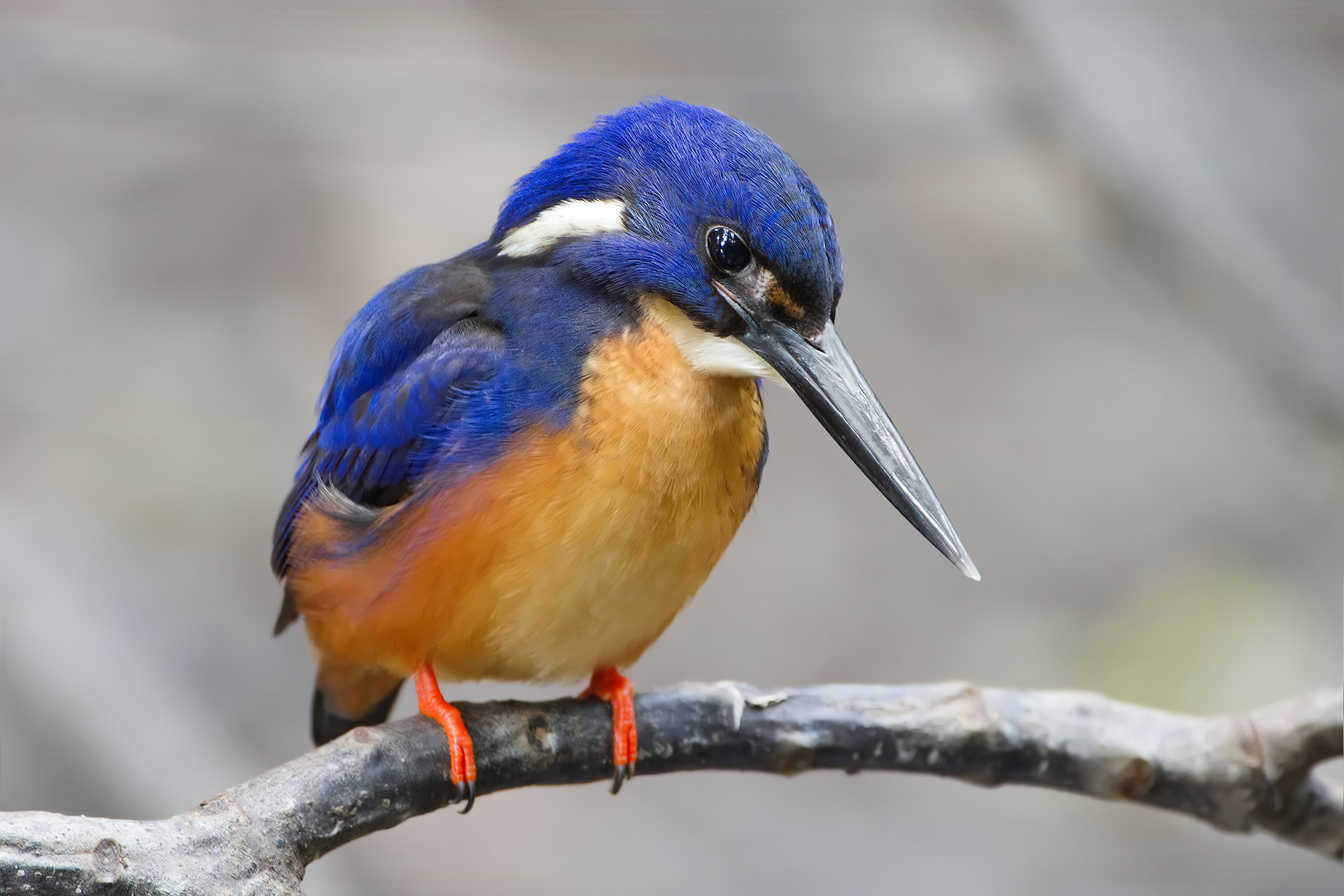 Azure Kingfisher (Alcedo azurea ruficollaris), Julatten, Queensland, Australia